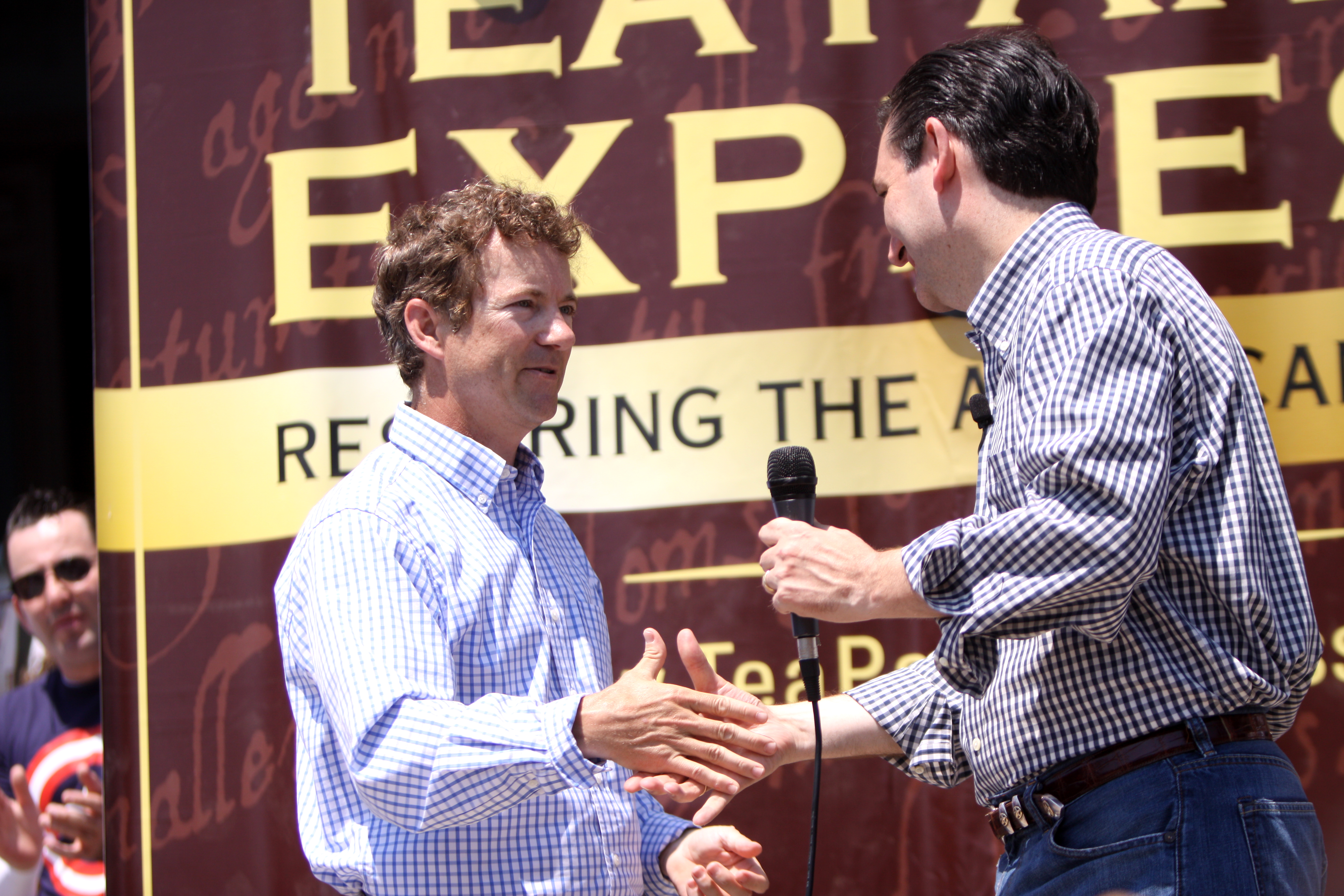 Rand Paul and Ted Cruz speaking to Tea Party Express supporters at a rally in Austin, Texas.